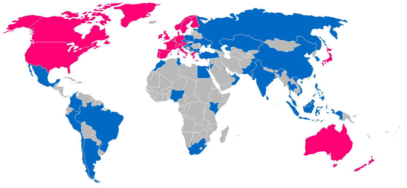 Economic Map of the World: Emerging Markets and Developed Markets as of June 2006